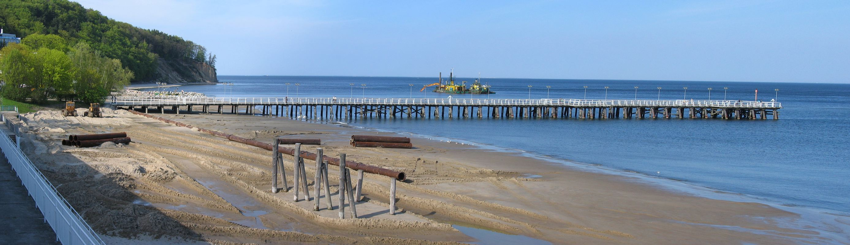 Expanding beach in Gdynia Orłowo.